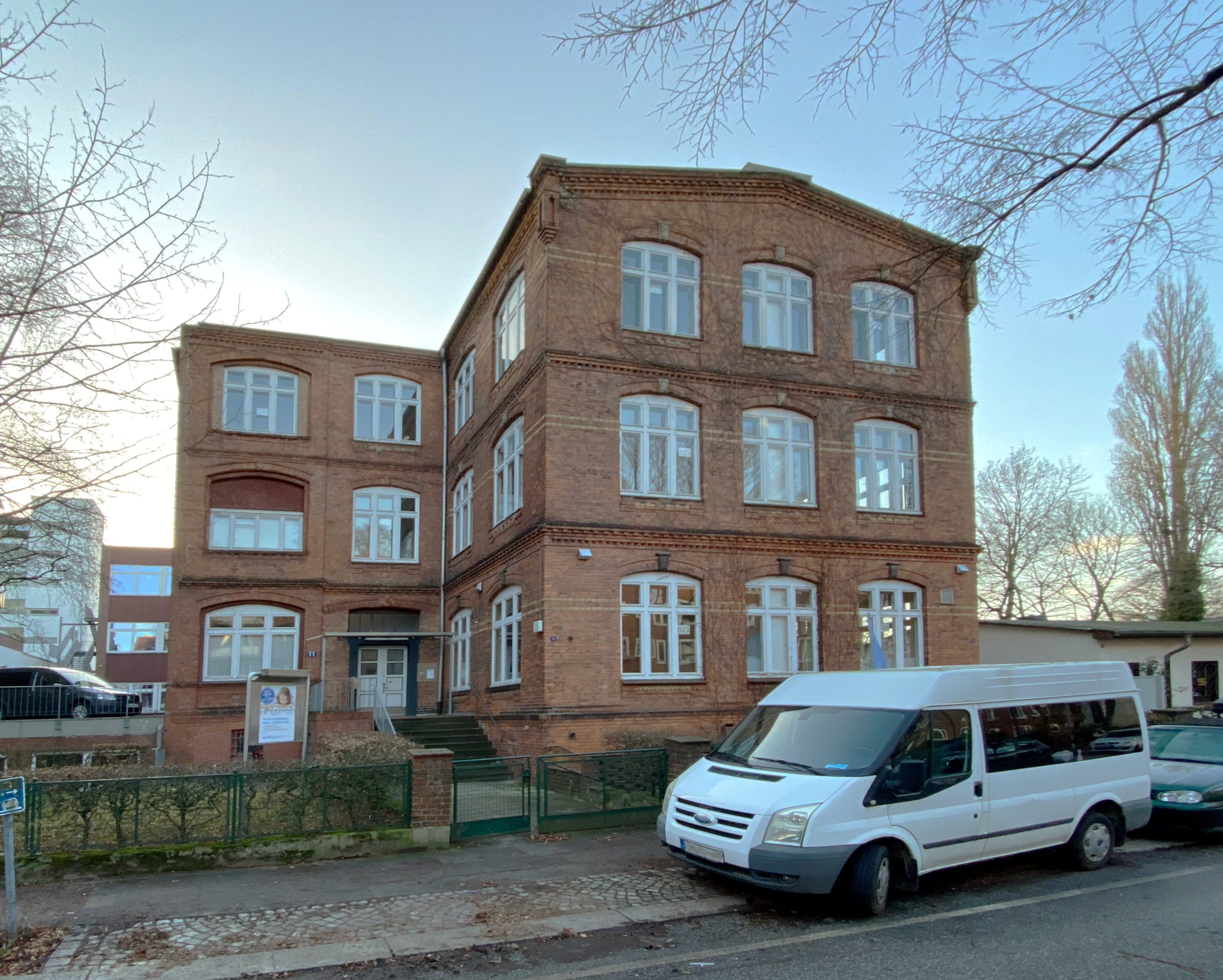 August-Hermann-Francke-Schule Uhlenhorst, Fassade des Altbaus zur Bachstraße